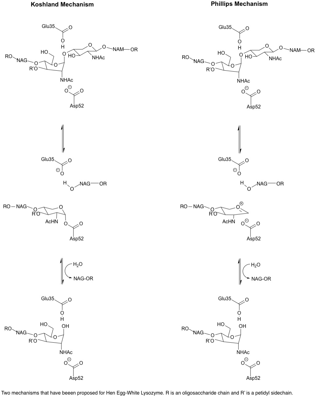 JBSlysozymemechanism copy2